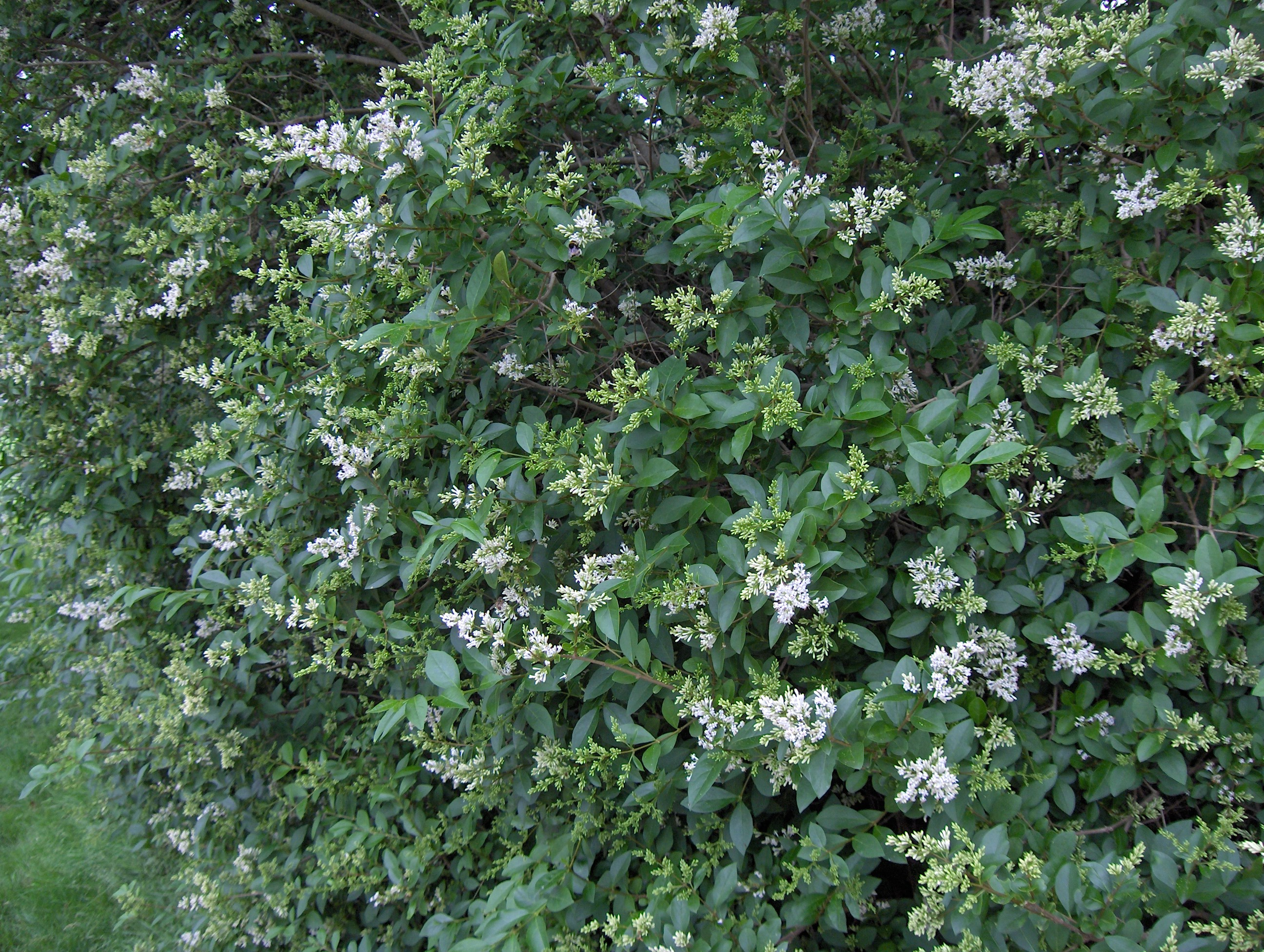 Ligustrum ovalifolium in flower